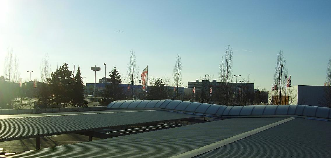 Euro-Industriepark in München (Munich / Germany) (Photography from the East site)